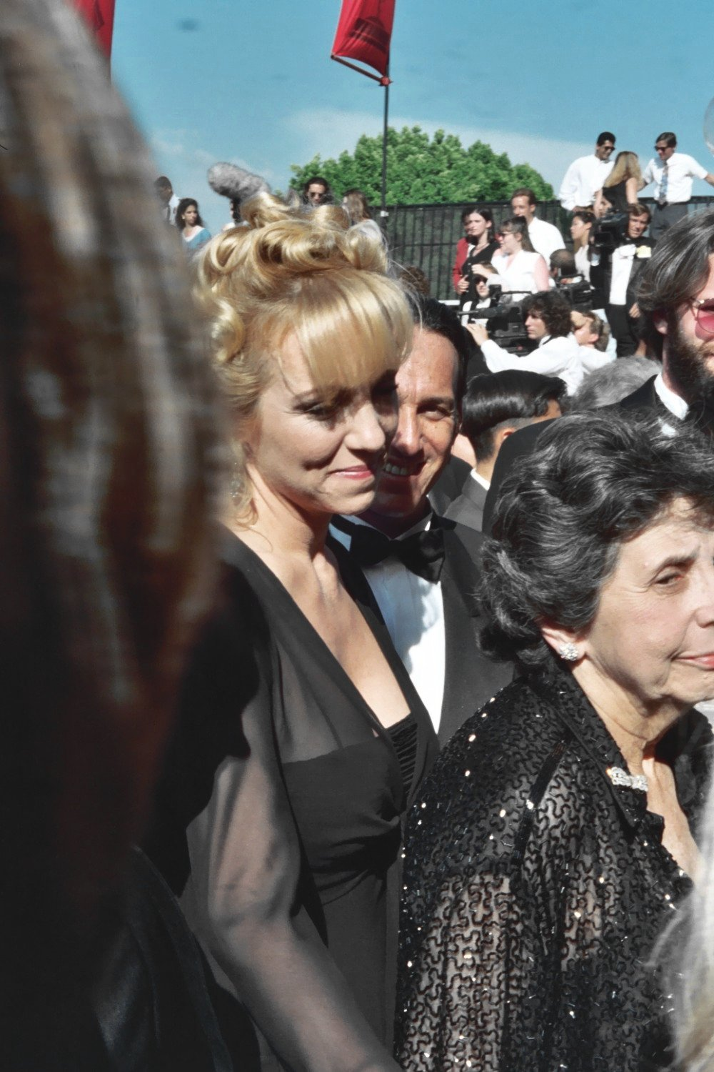 1994 Emmy Awards. Scanned from the original 35MM film negative.